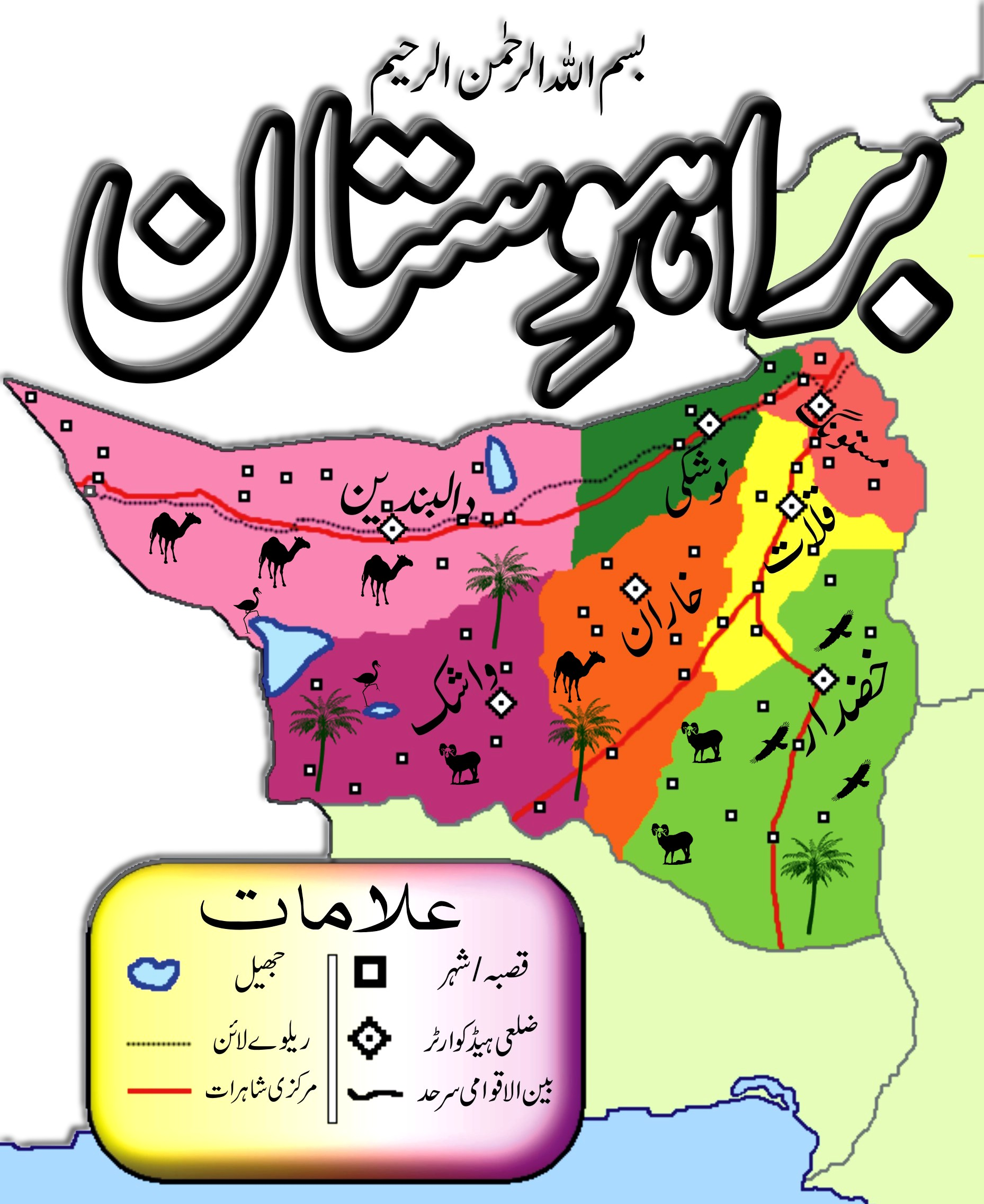 Brahuistan province